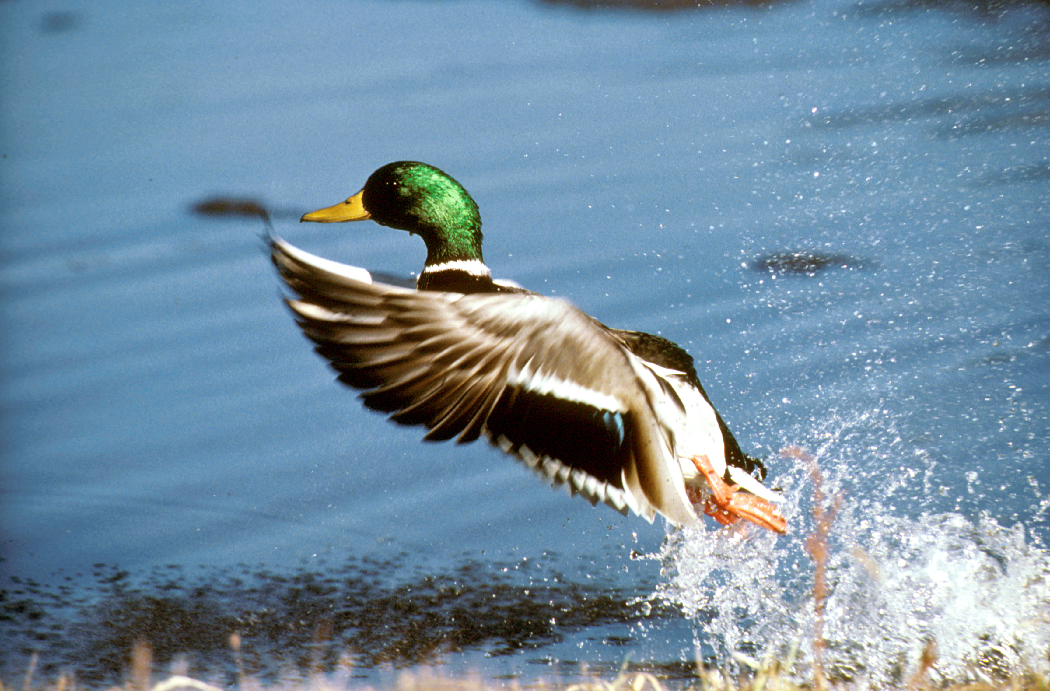 A Mallard drake (Anas platyrhynchos). Source: WV11658-003